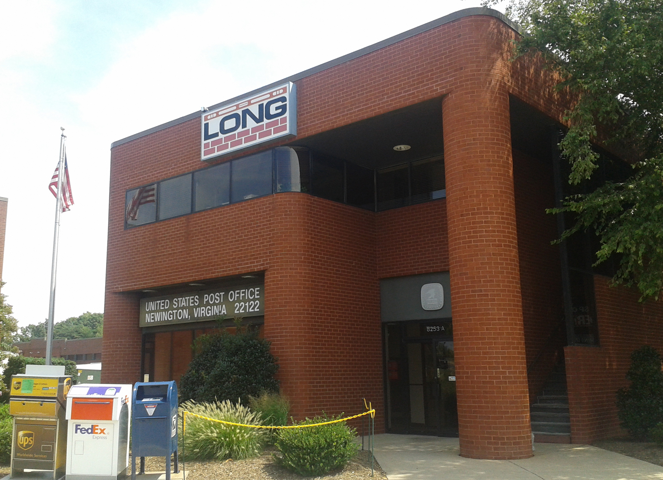 Post office in Newington, Virginia